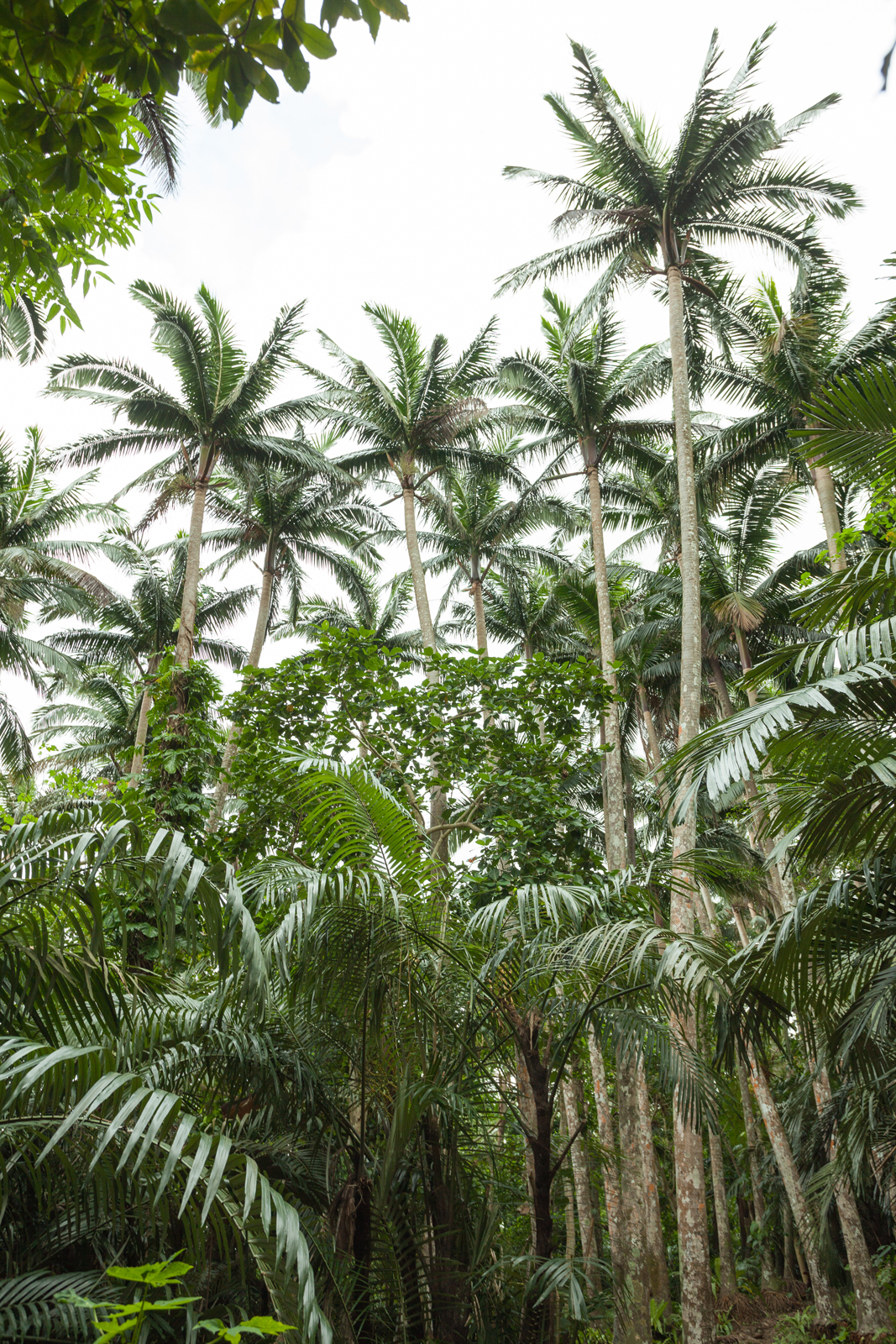 Native forest of Satake palm trees (Satakentia liukiuensis), Yonehara, Ishigaki Island of the Yaeyama Islands, Okinawa, Japan